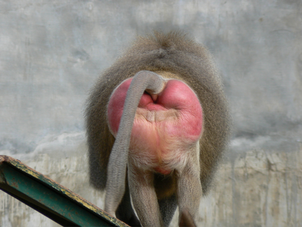 Baboon's buttocks